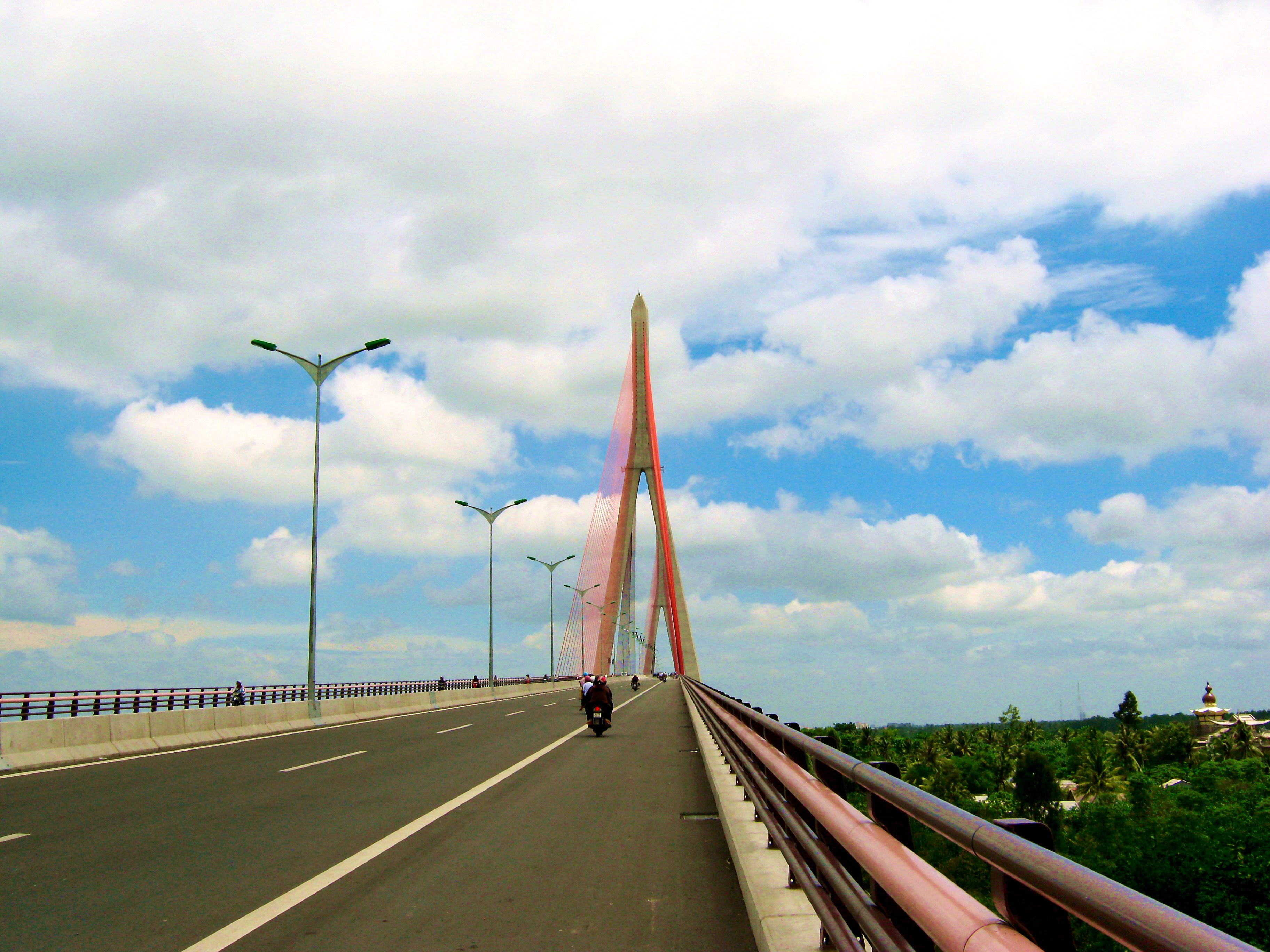 Trên cầu Cần Thơ (Việt Nam).